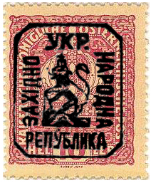 Stamp of the Western Ukrainian People's Republic. The Lvov issue, 1918